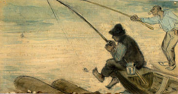 Drawing by Henricus Jansen, Special Collections, Leiden University Library